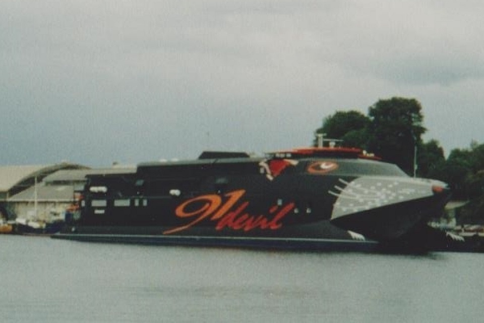 The "Devil Cat" catamaran operated across Bass Strait between the Australian states of Tasmania and Victoria between 1997 and 2002. The "Devil Cat" (Devil catamaran) was named for, and based on, the Tasmanian devil